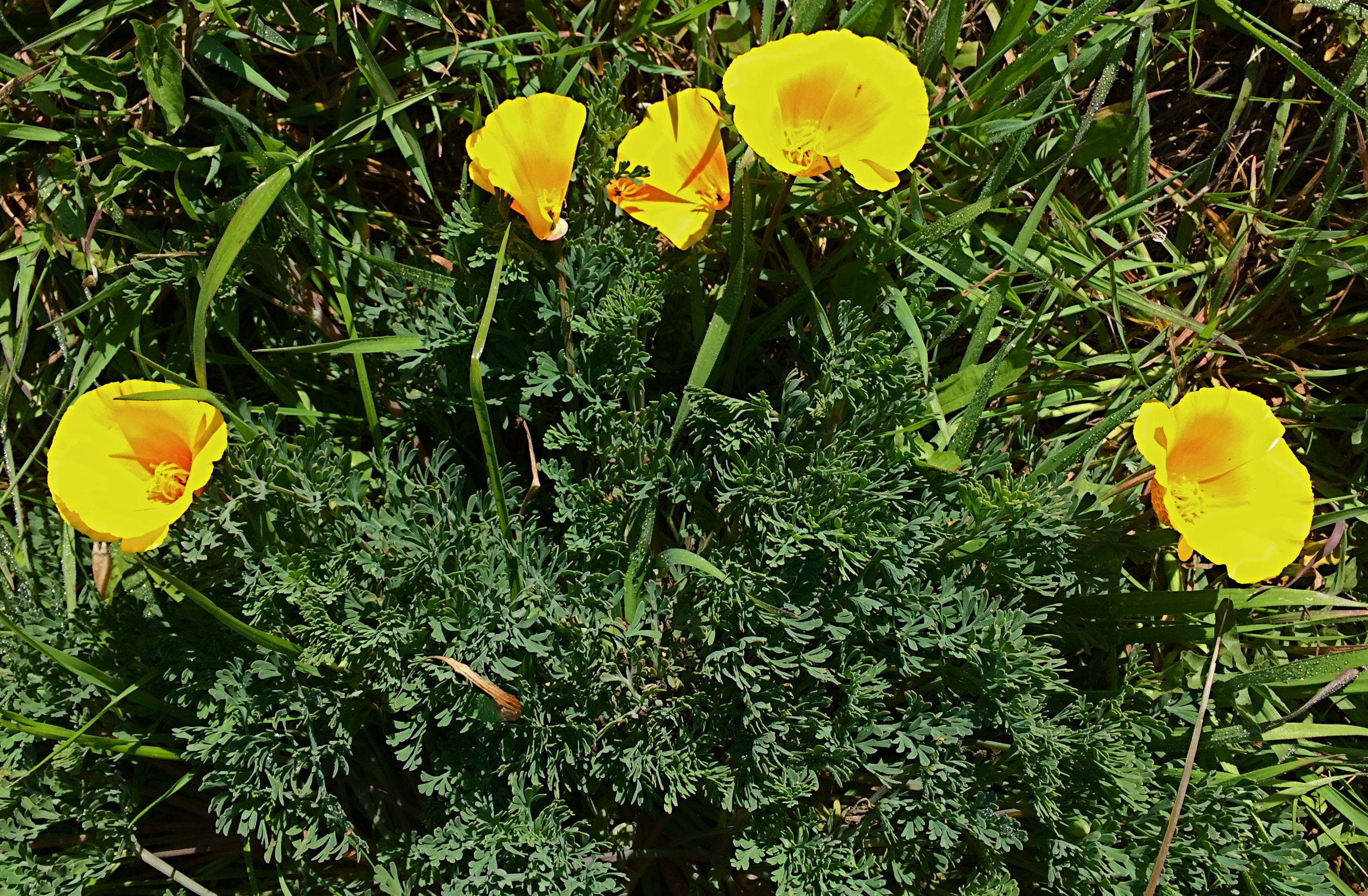 E. californica subsp. californica var. maritima (E. L. Greene) Jeps., photo from Ficalini Ranch preerve, Cambria CA. Note gray-green foliage.